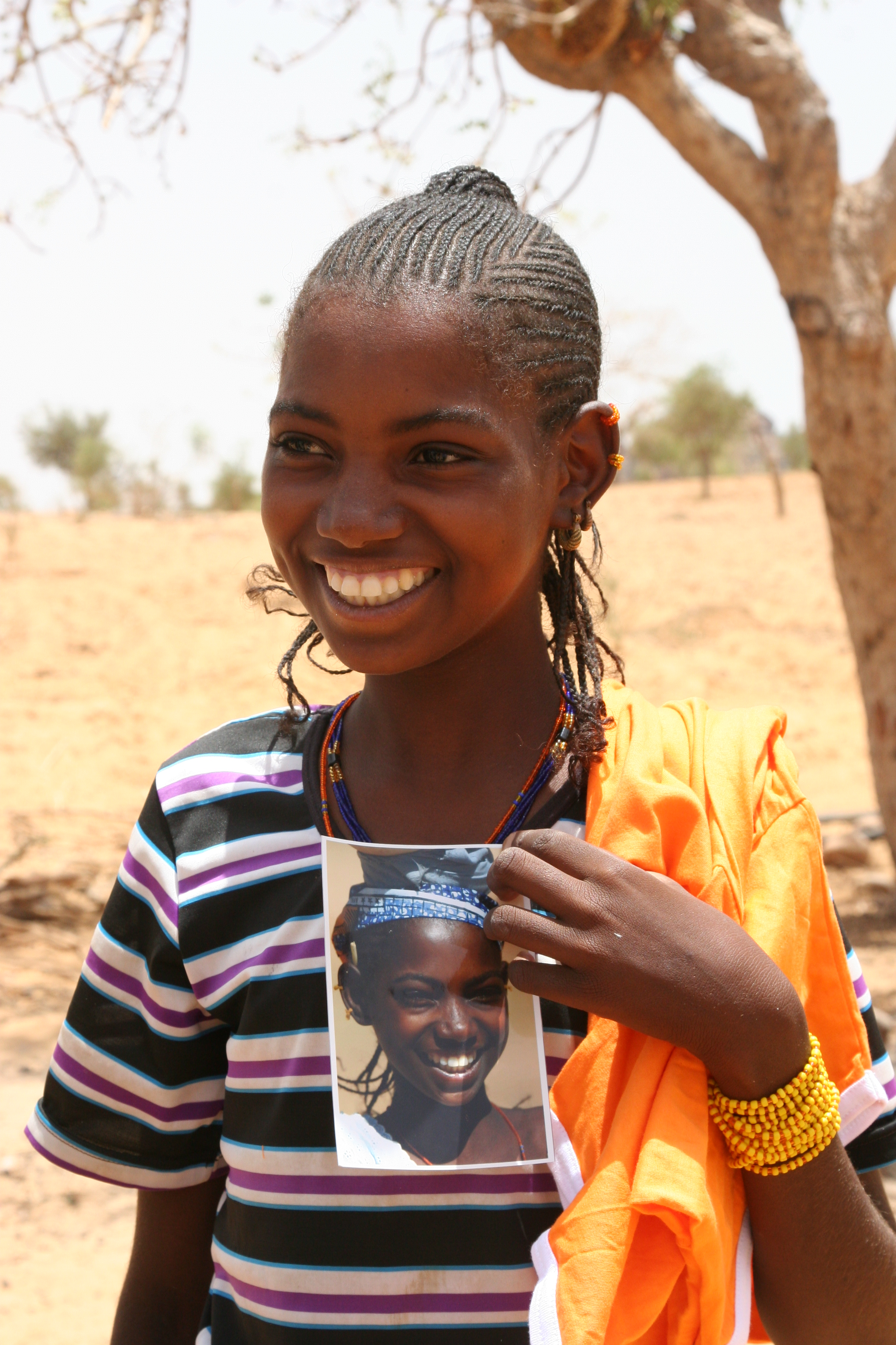 A few years ago I took a photo of this young peul girl. She carried a calabash with fresh cow milk on her head and was on the way to the market in a small village called Kani Kombolé to find a buyer for the milk. It was one of my favorite portraits of that year and also became one of my most favorited and popular photos on Flickr. A few weeks ago, in June 2008, I made another trip to Mali and hoped to meet her again. I brought a copy of the photo with me and with the help of some villagers in Kani Kombolé I managed to find her somewhere in the `brousse´, where she lived with her family in a small shelter made of straw. It was very special meeting her and her family and great to see her beautiful smile again. Most important that I finally got the name behind the smile. Her name is Mariem, the peul girl from Dogon country. The original photo is posted next to this one.